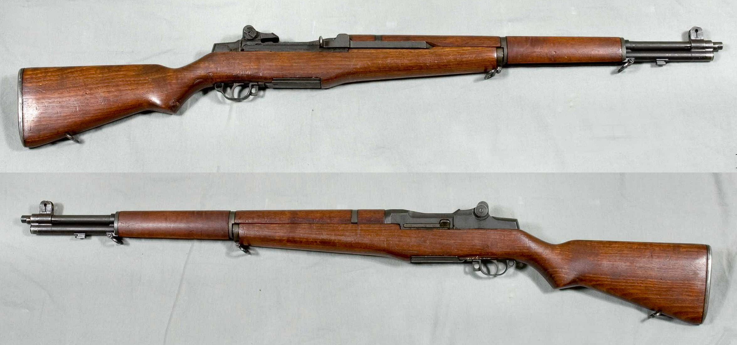 M1 Garand rifle, USA. Caliber .30-06. From the collections of Armémuseum (Swedish Army Museum), Stockholm.